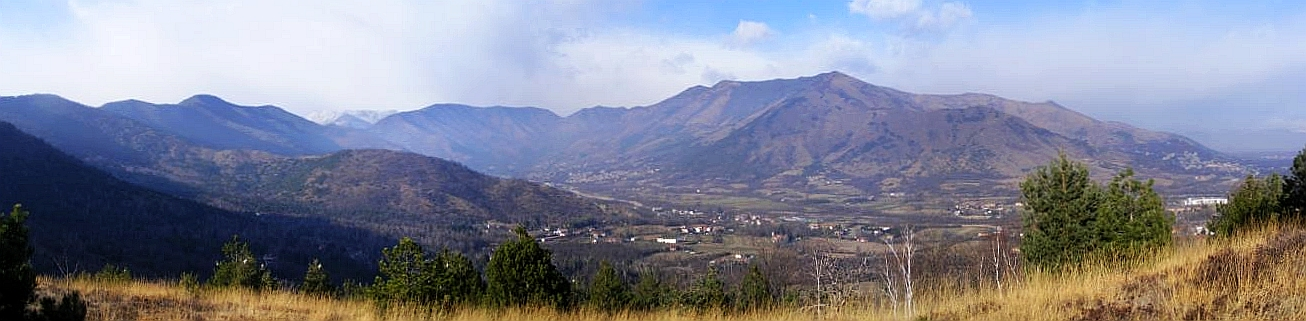 Casternone valley (TO, Italy) from mount Musinè's north-east ridge Piemontèis: La val Casternon (TO)